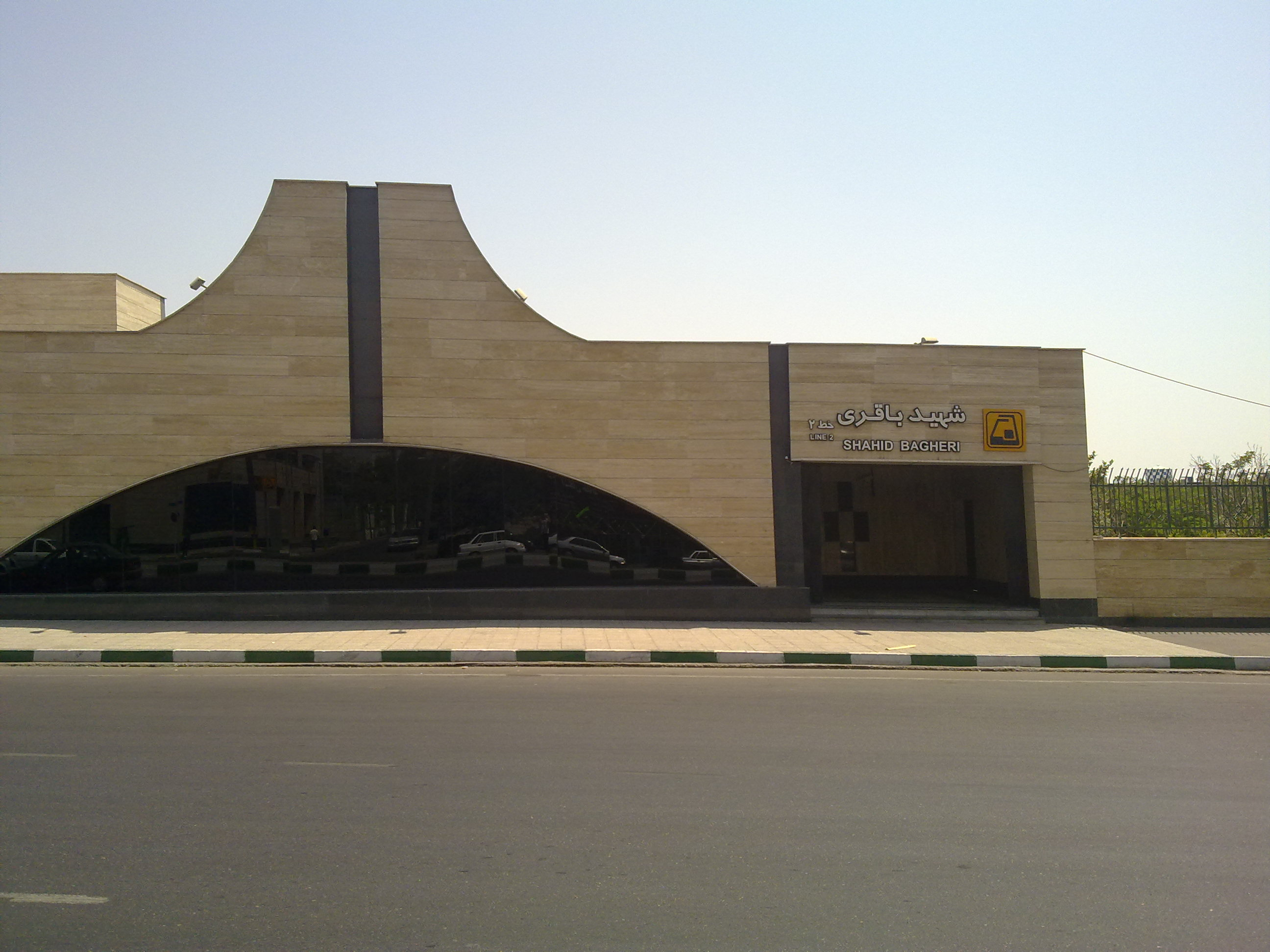 Shahid Bagheri Metro staion in Tehran